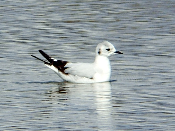 Little Gull Larus minutus (first-summer), St Mary's Wetland, Northumberland, UK; 19 April 2006